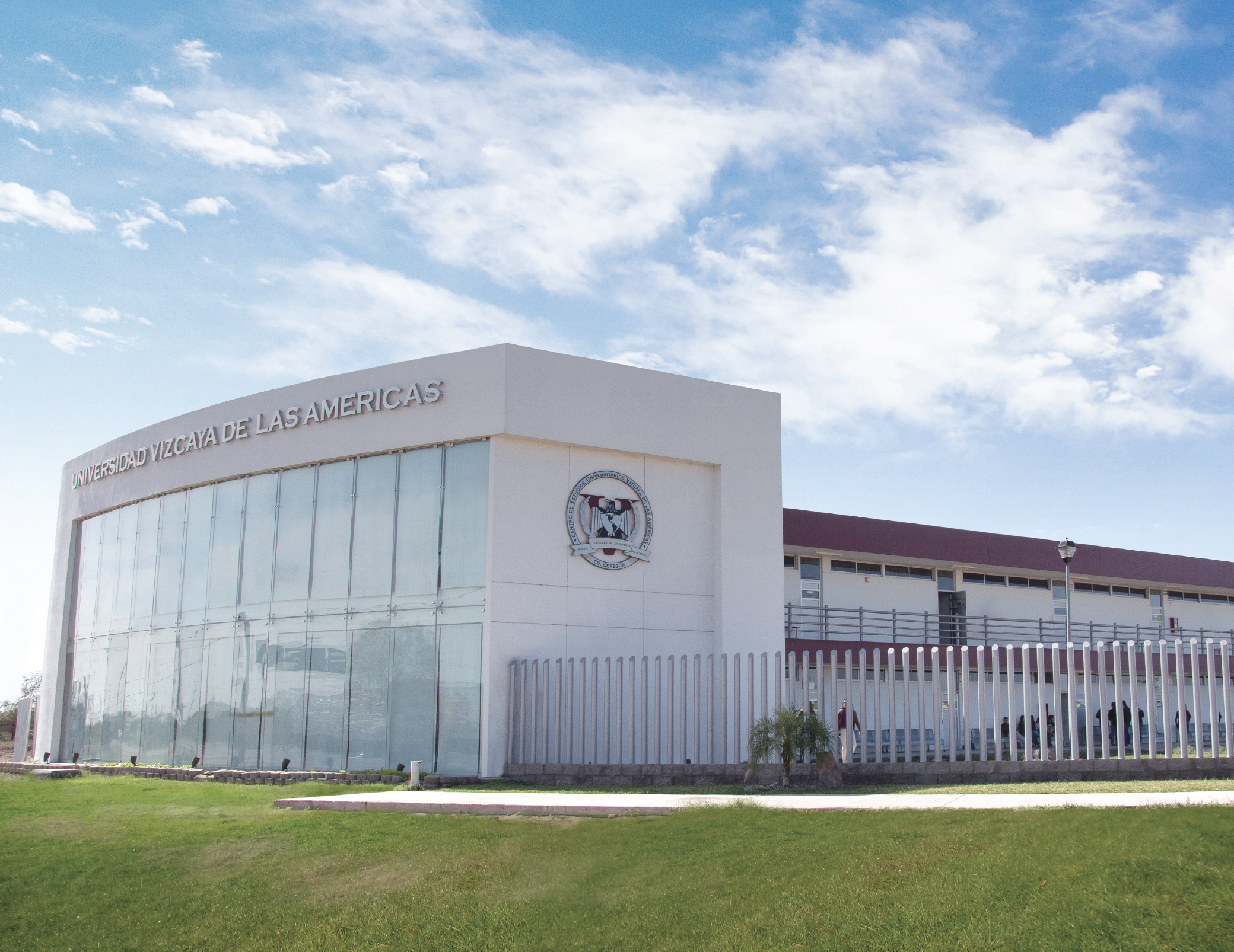 Campus de la Universidad Vizcaya de las Américas